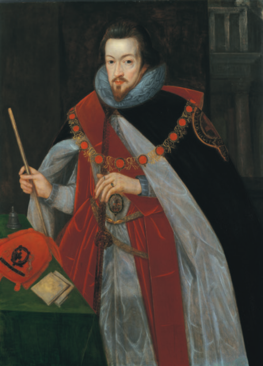 Portrait of Robert Cecil, 1st Earl of Salisbury (c.1563-1612) in the robes of the Order of the Garter